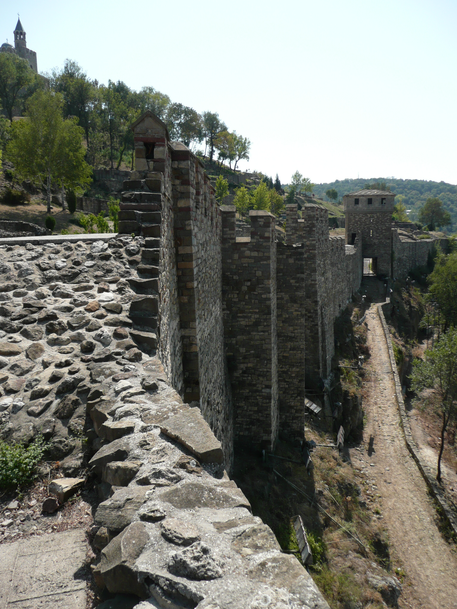 The Western walls of the Tsarevets royal citadel in the medieval Bulgarian capital Tarnovo (12th - 14th c.)